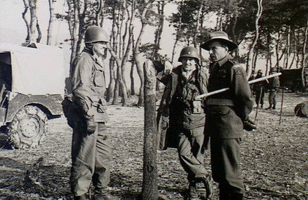 The commanding officer of 3rd Battalion, Royal Australian Regiment, LTCOL Ian Bruce Ferguson, converses with two US Army officers during the Korean War